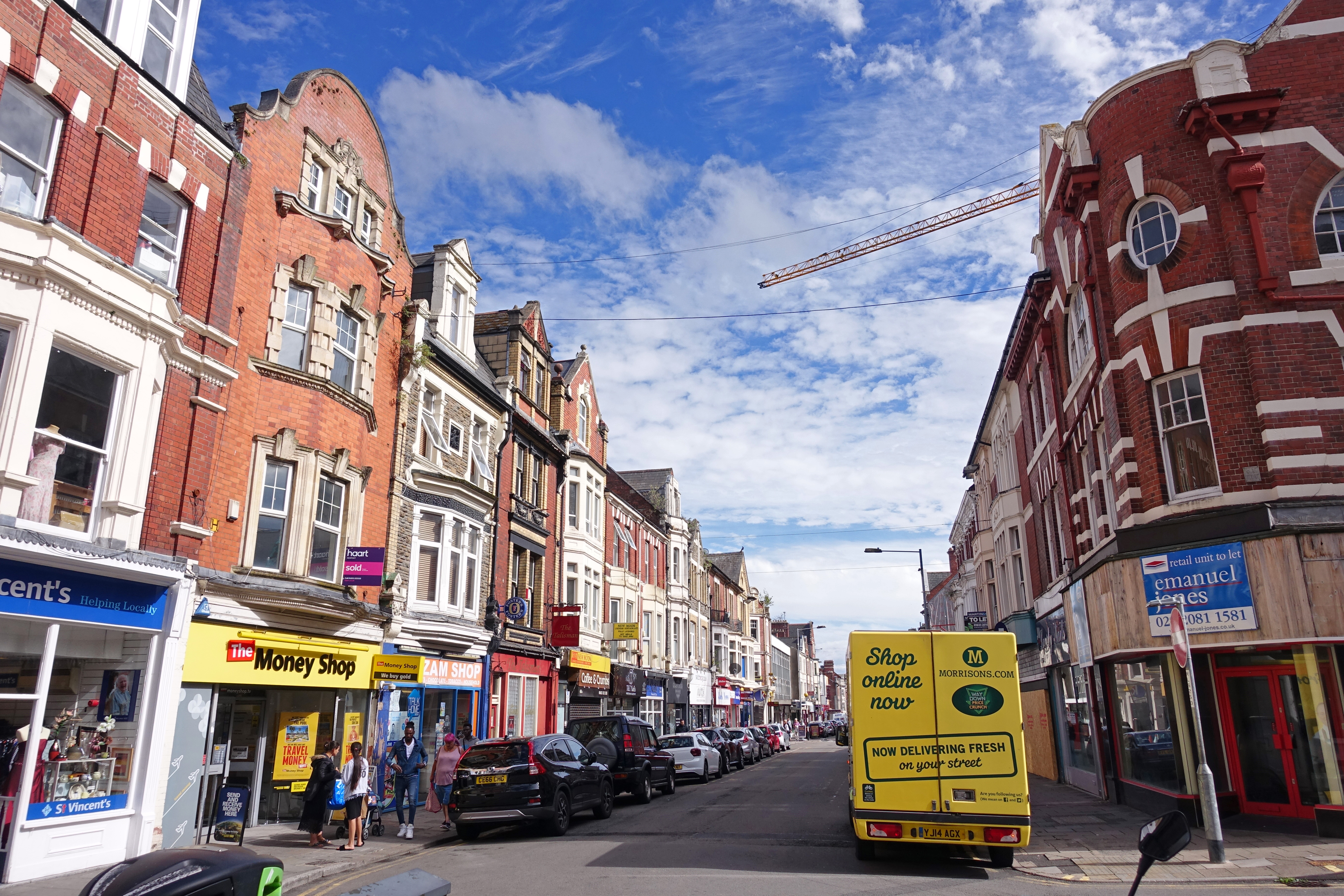 Commercial Streetreet in Newport.